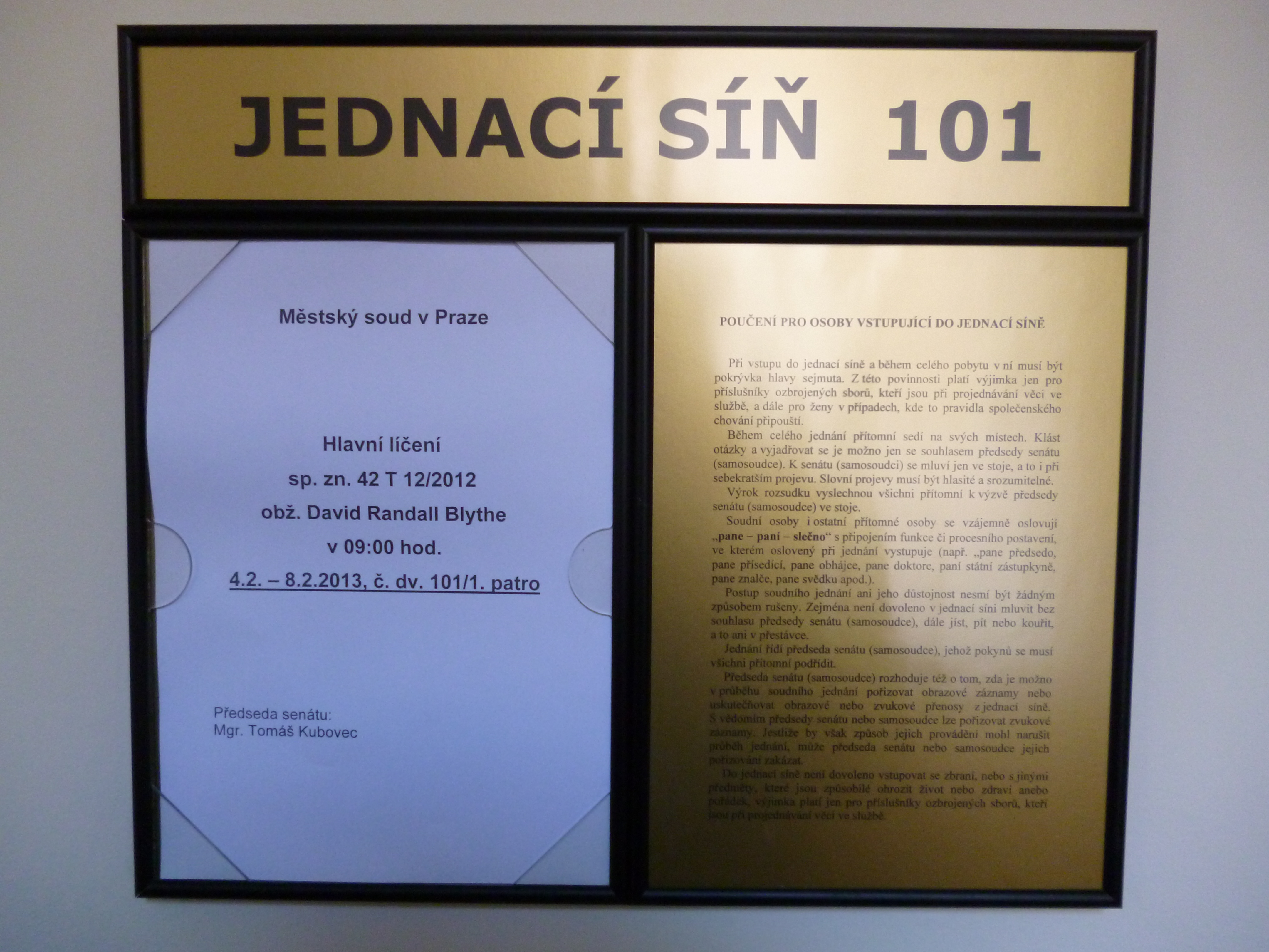 Courtroom list of Courtroom 101 of the Municipal Court in Prague, Randy Blythe's manslaughter case